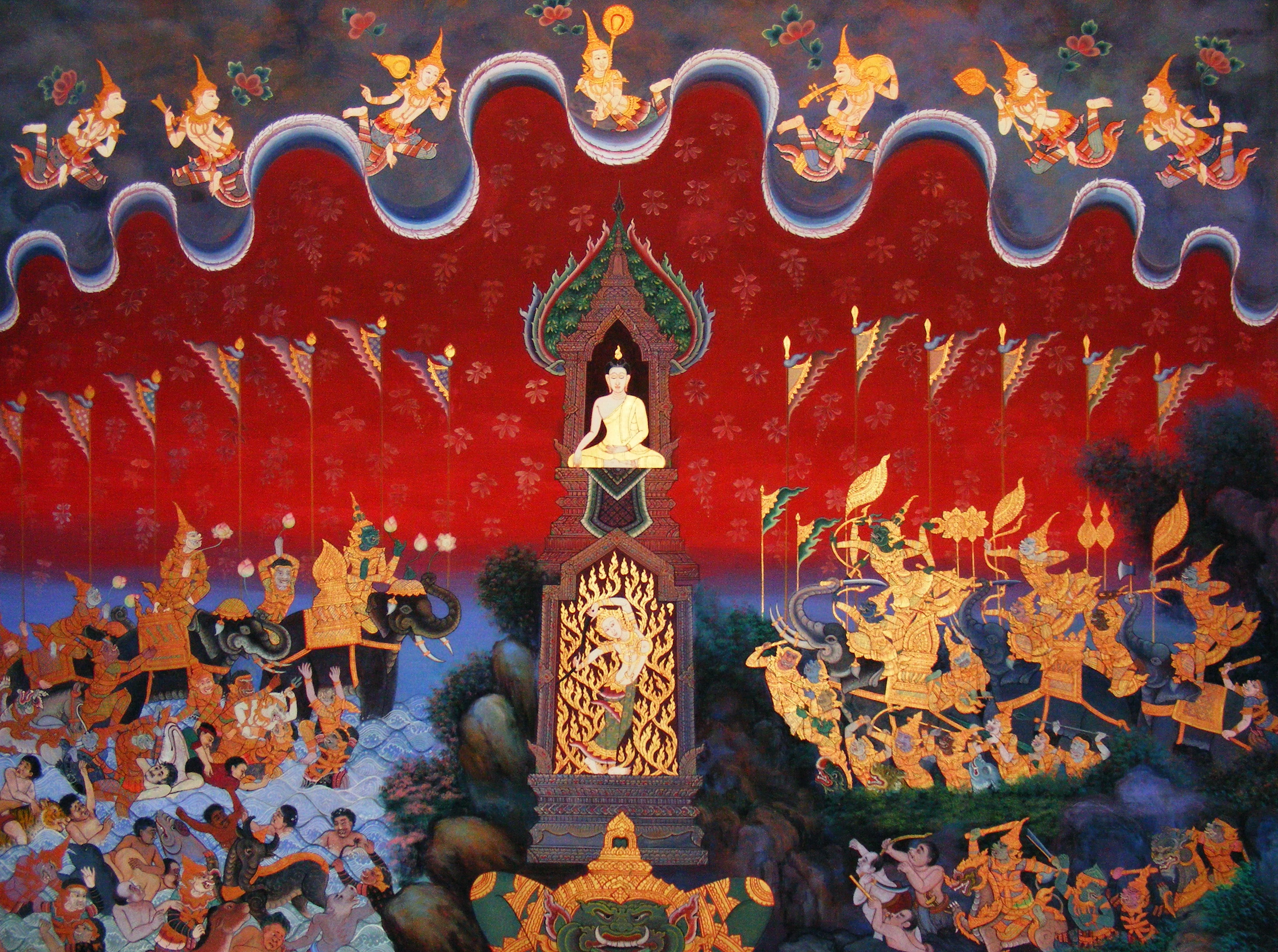 Wat Phra Yuen Phutthabat Yukhon Location: Wat Phra Yuen Phutthabat Yukhon Amphoe Laplae, Uttaradit Province, Thailand.